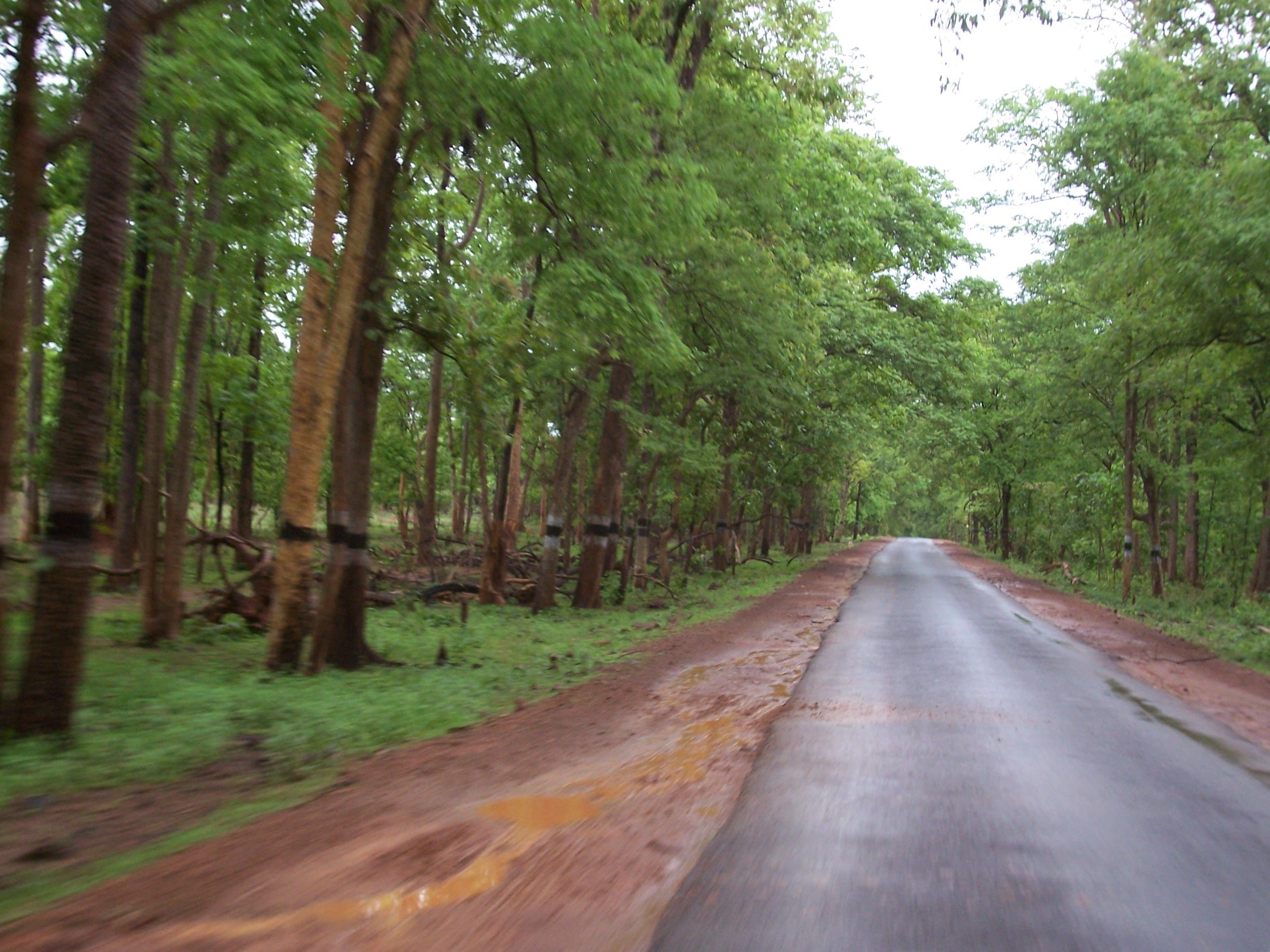 A Road near Lambasinghi, Visakhapatnam district, Andhra Pradesh